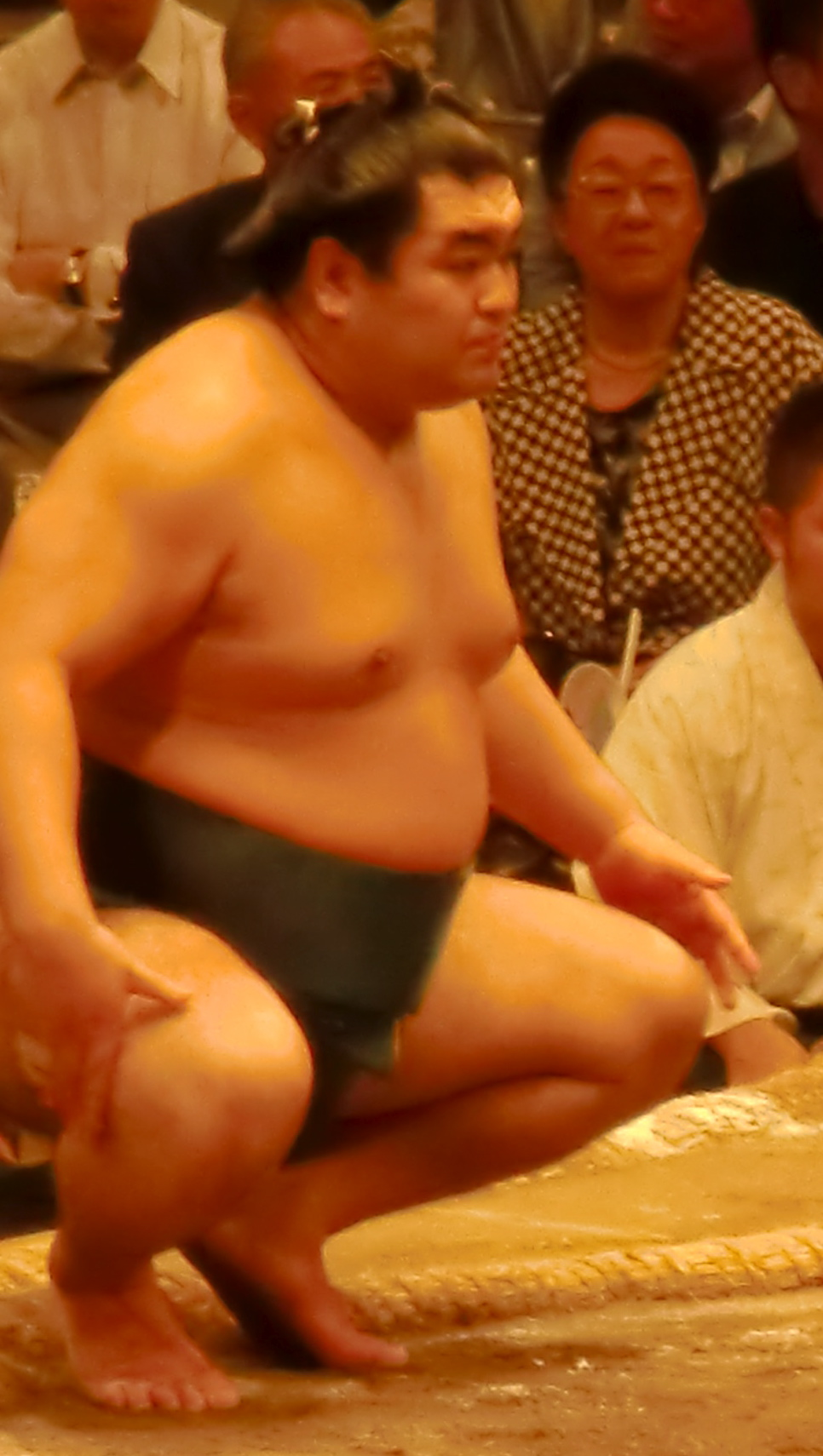 taken at Sep 2009 tournament